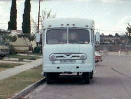 A Gerstenslager Bookmobile (year unknown). This vehicle had a V-8 gasoline engine (I think it was a Ford 390) and had been converted into a camper.